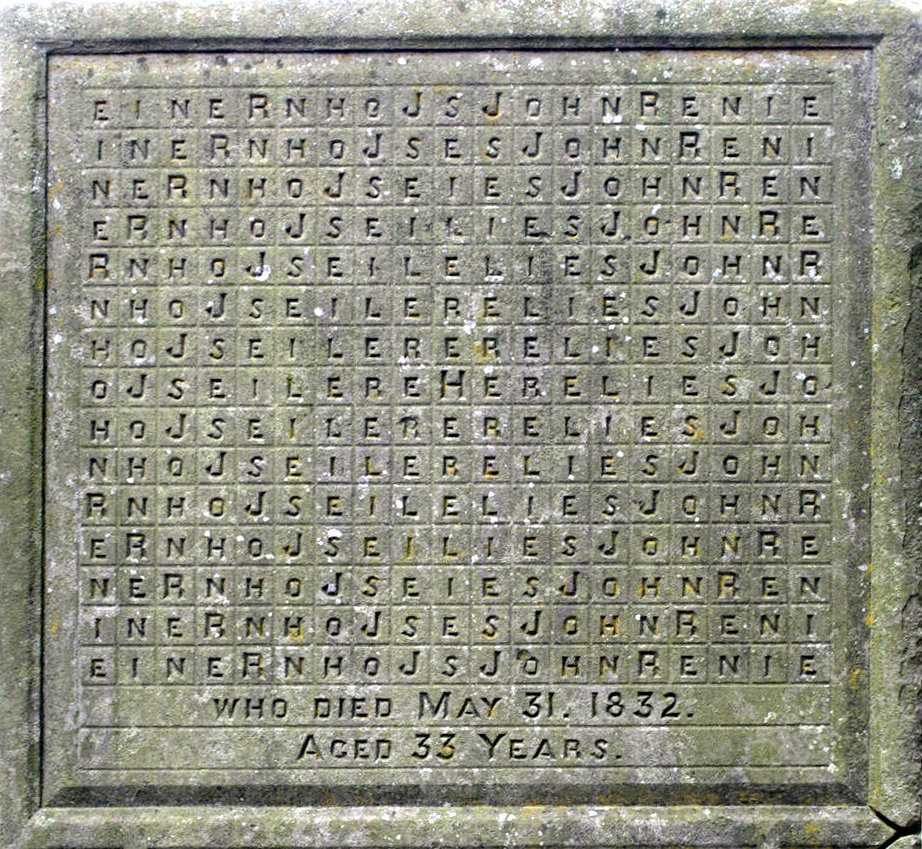 Here lies John Renie Gravestone - cleaned up - made square